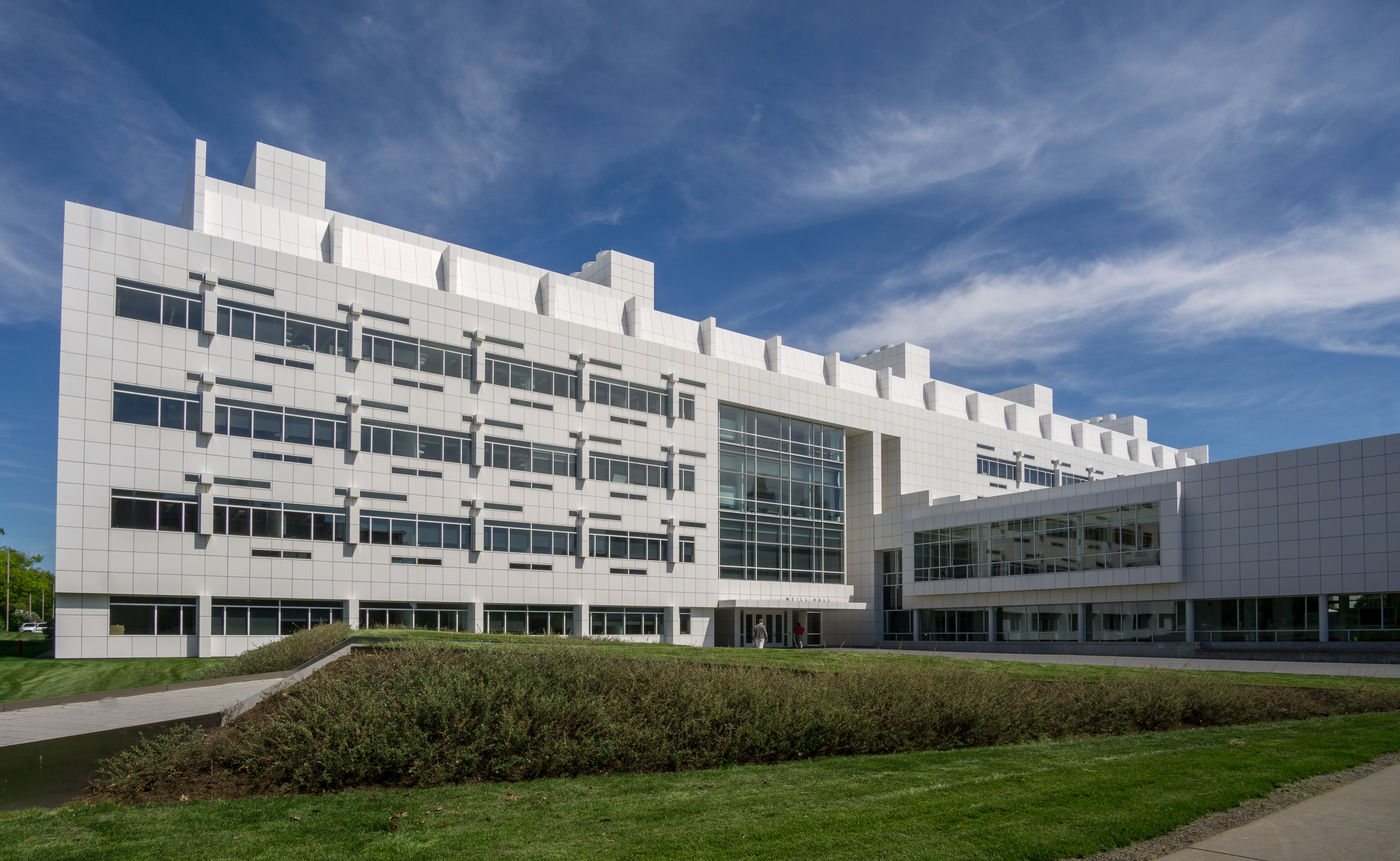 Weill Hall was designed by Pritzker Prize-winning architect Richard Meier, who graduated from Cornell in 1956. It houses the Institute for Cell & Molecular Biology. Cornell University, Ithaca, NY